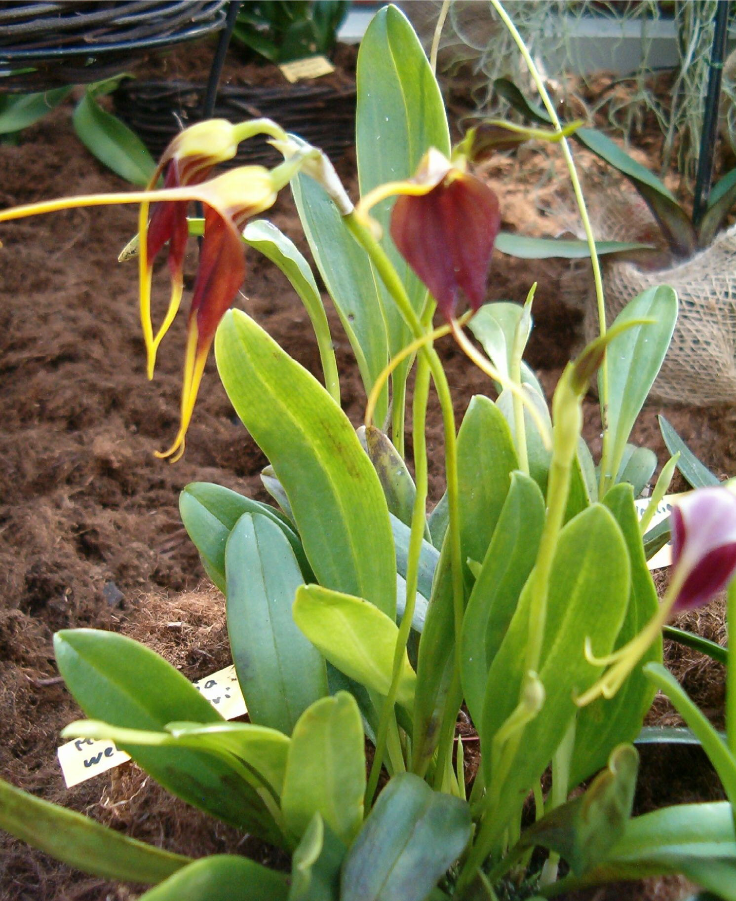 Masdevallia weberbaueri, Habitus and Flowers Location: Botanical Gardens Berlin - Orchid Exhibition